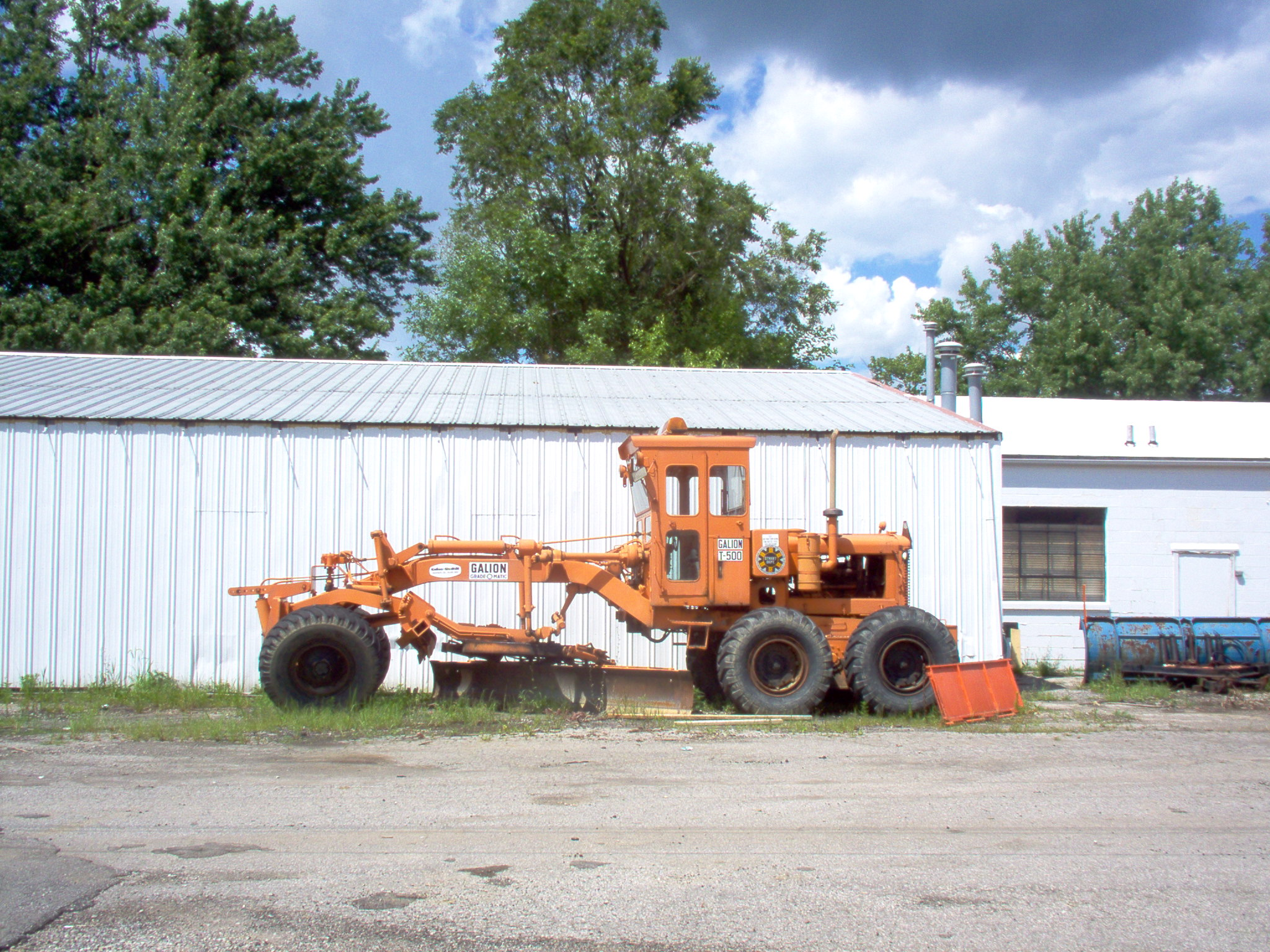 Picture made by me.